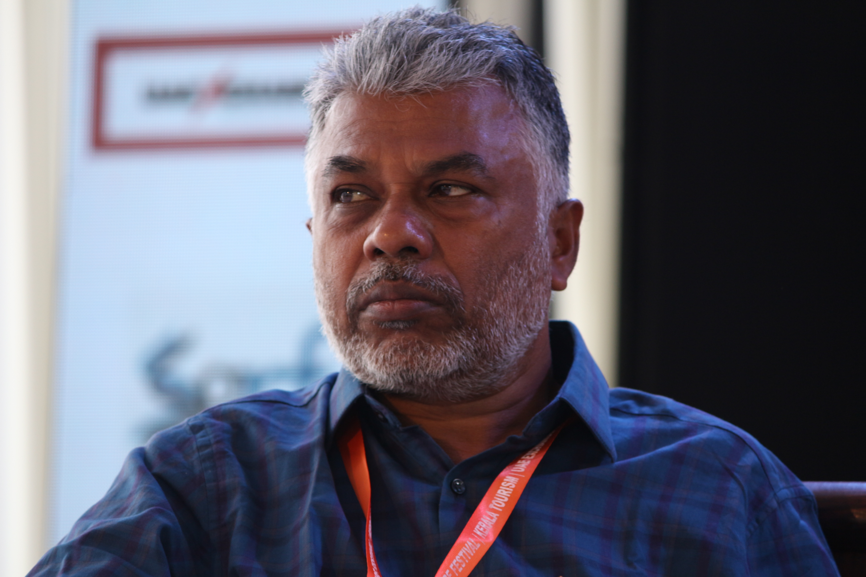 Perumal Murugan at Kerala Literature Festval in 2018